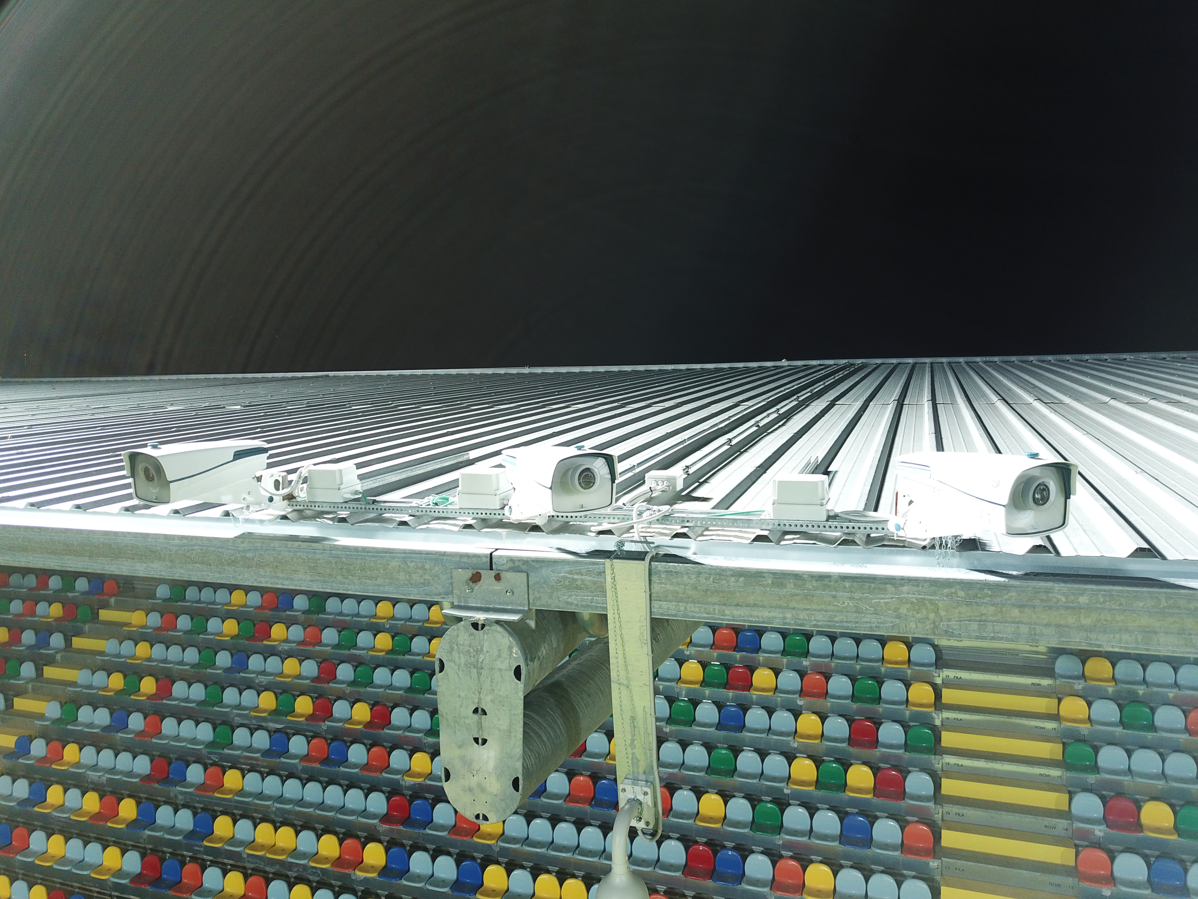 Benito Stirpe Stadium, Main Stand (details of the CCTV cameras)